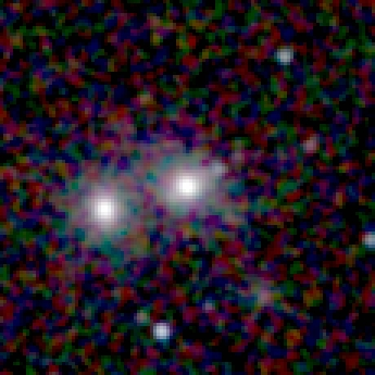 NGC 7035 and NGC 7035A by the 2MASS survey.